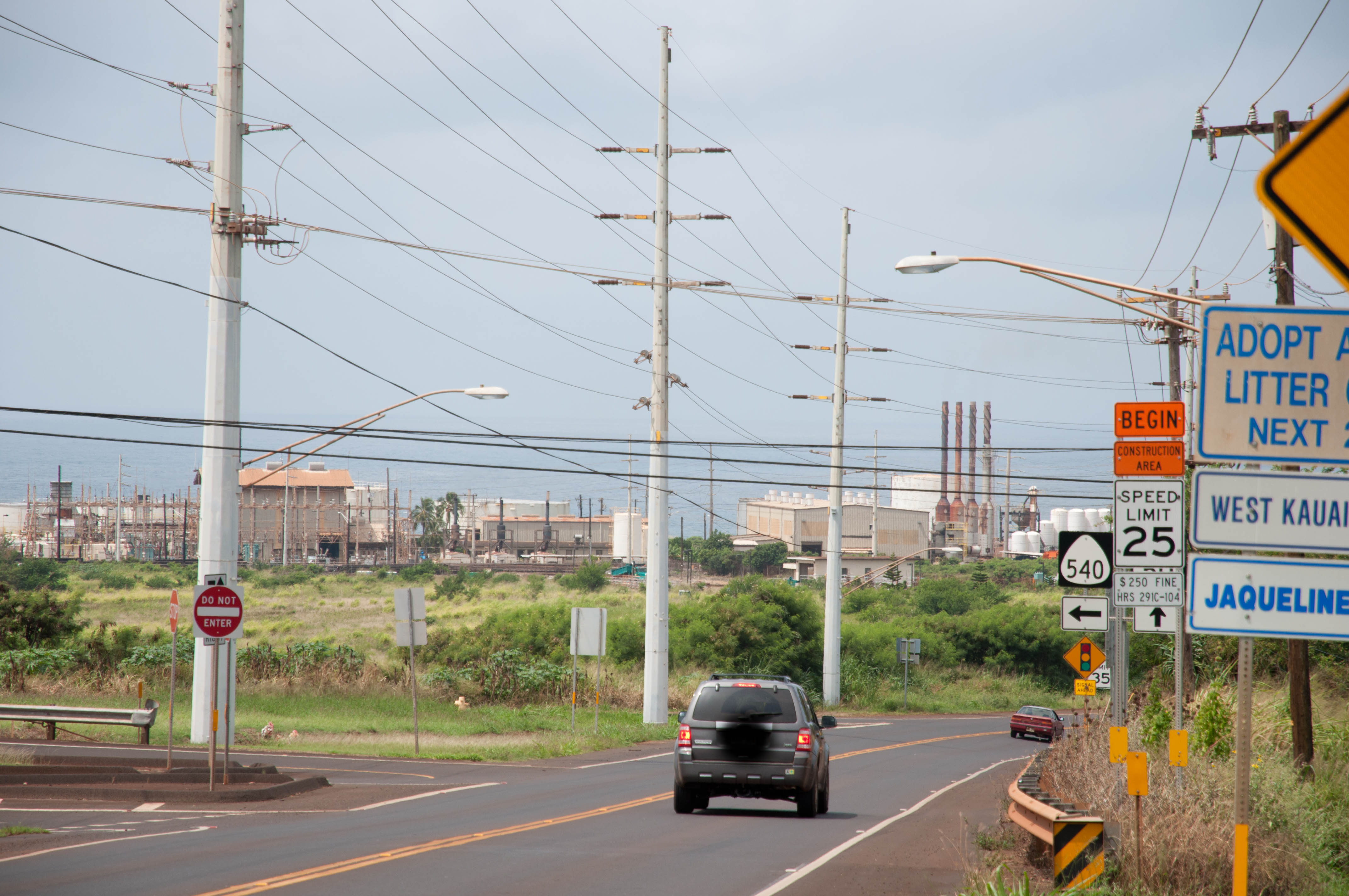 Commercial area of Port Allen, Kauai, Hawai'i, USA